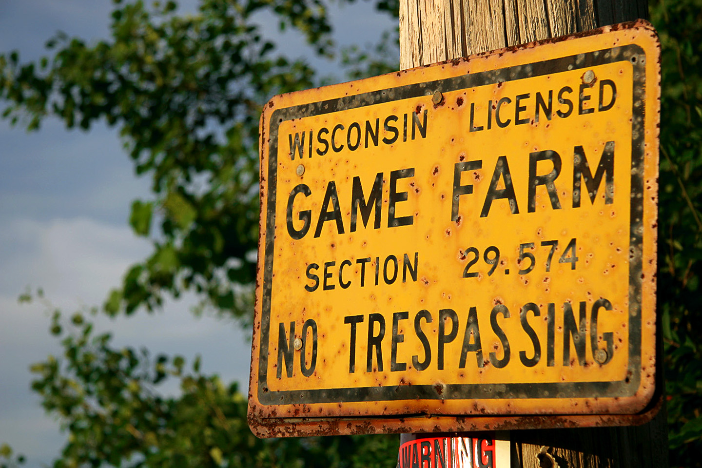 An old "no trespassing" sign found along a country road in rural Dane County, Wisconsin. It reads: Wisconsin licensed game farm - section 29.574 - no trespassing.No Trespassing